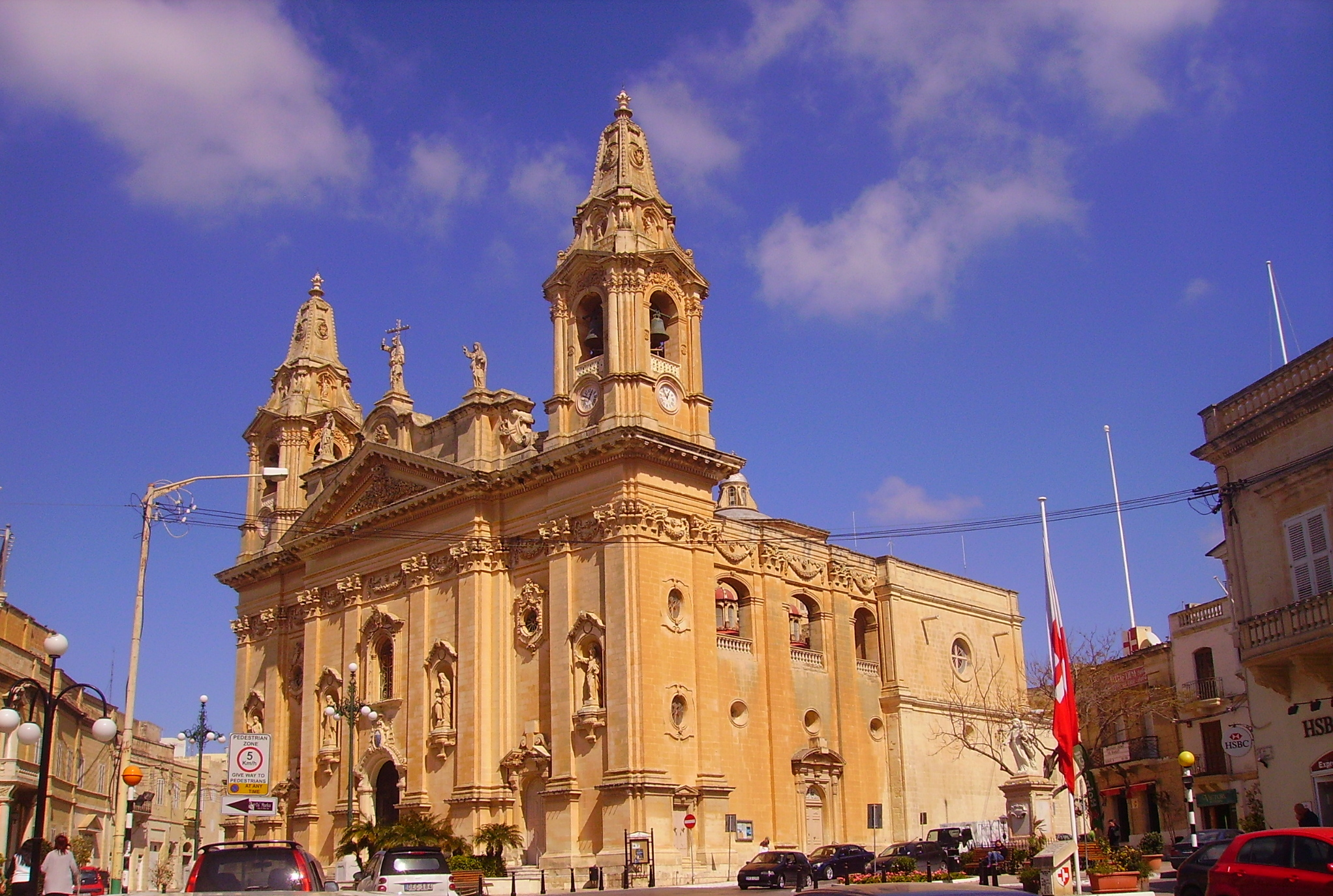 Our Lady of Victories, Naxxar